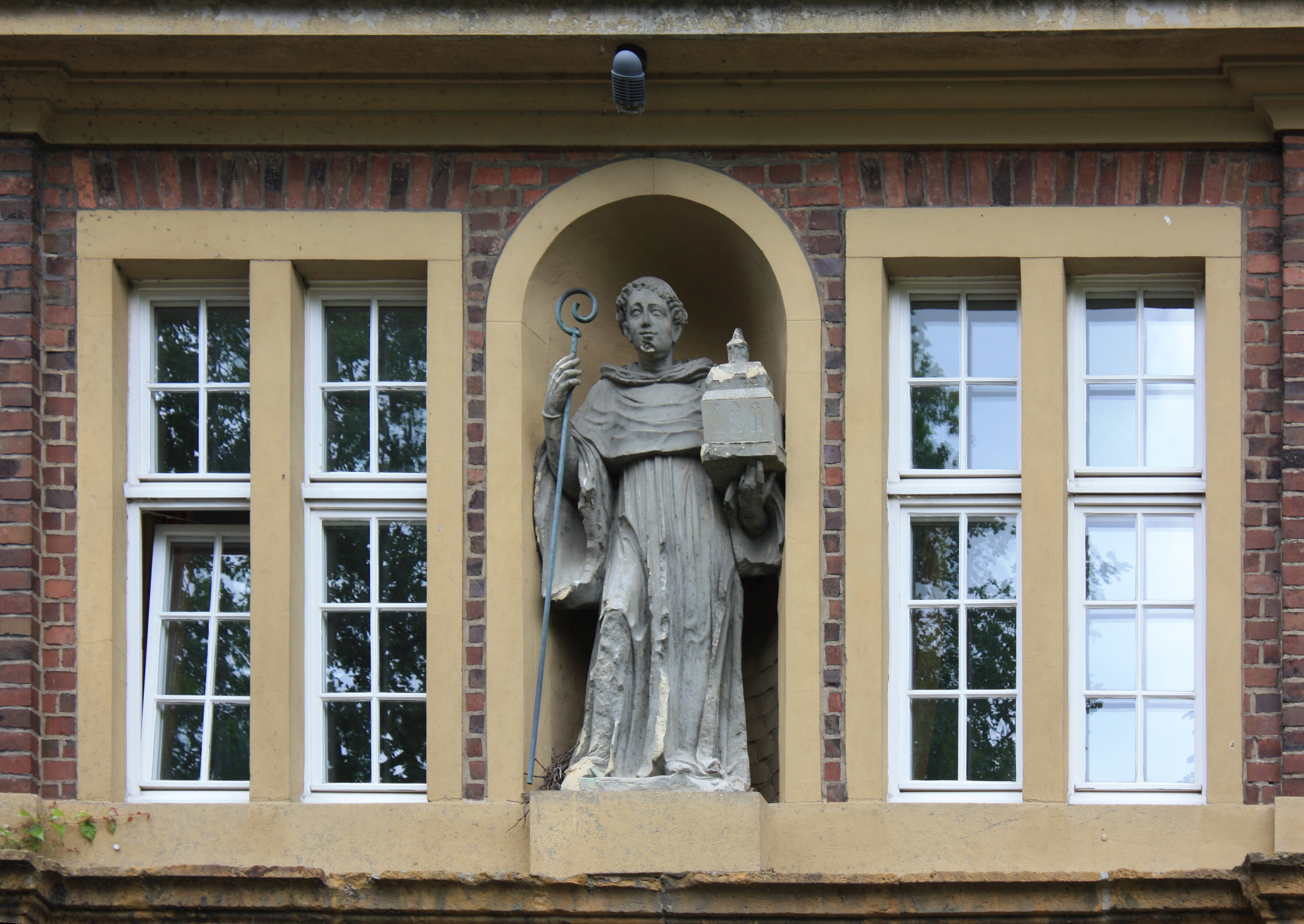 Robert of Molesme at the gatehouse of Marienfeld monastery in North Rhine-Westphalia, Germany.